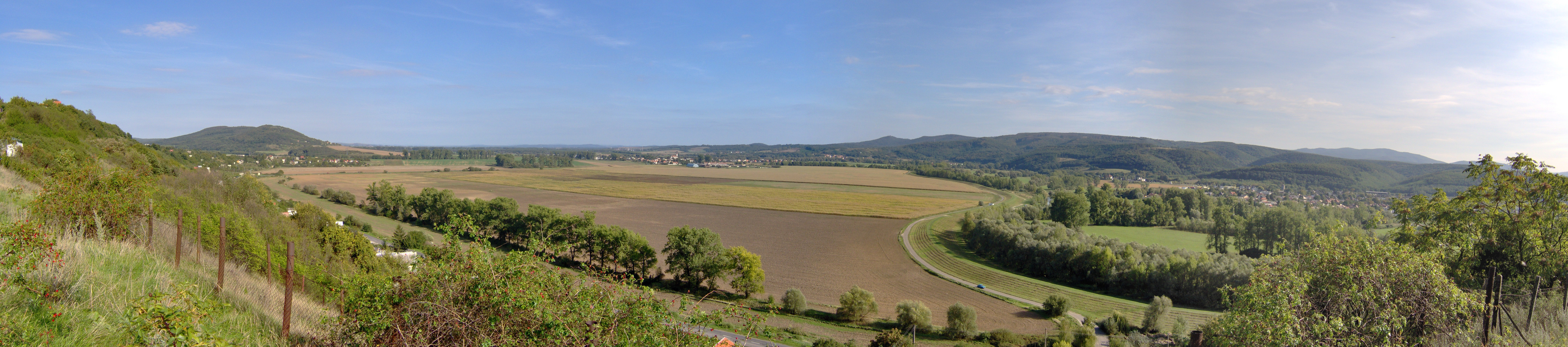 Tešmak, view from Šahy